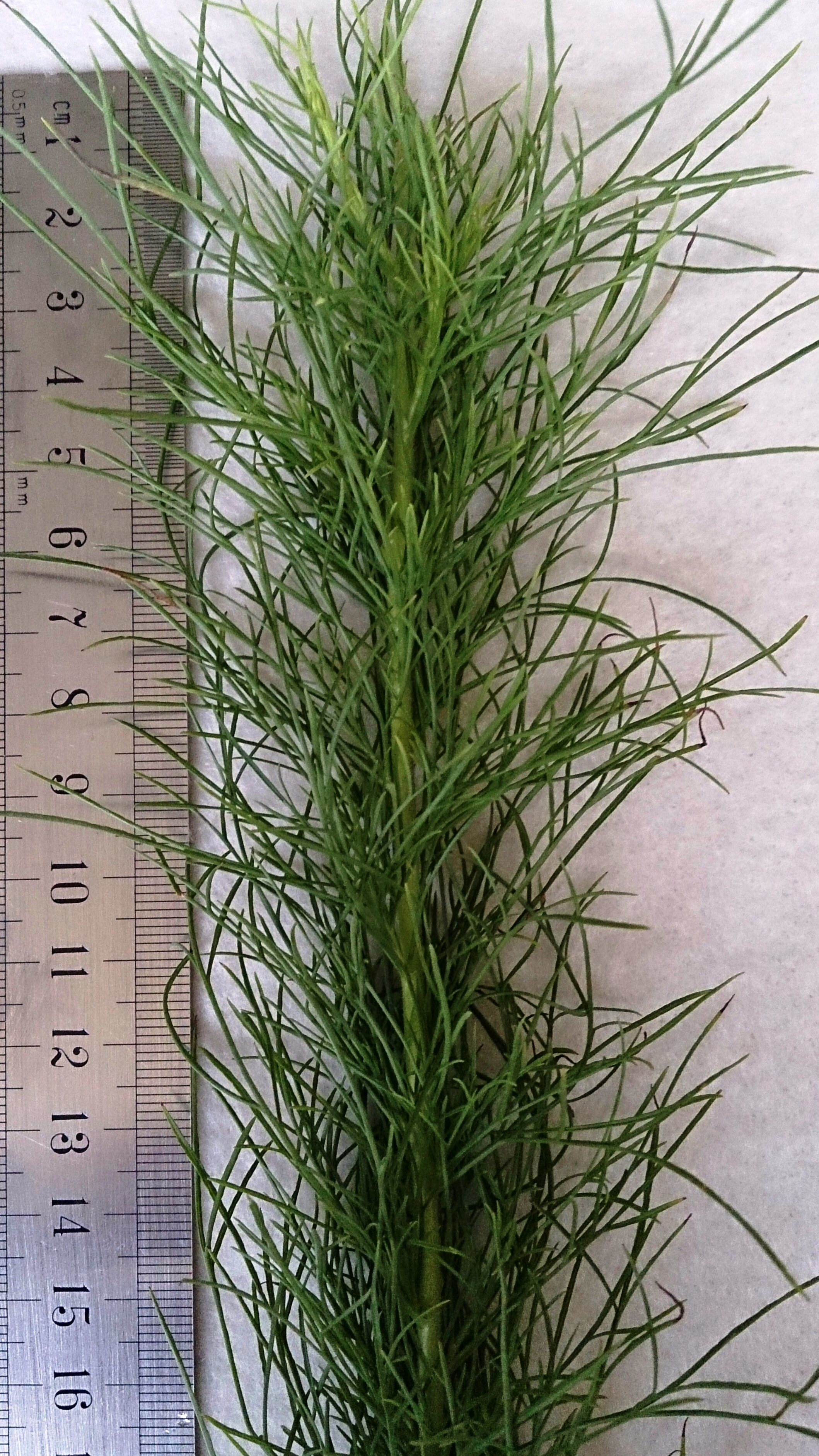 Artemisia scoparia. 茵陈